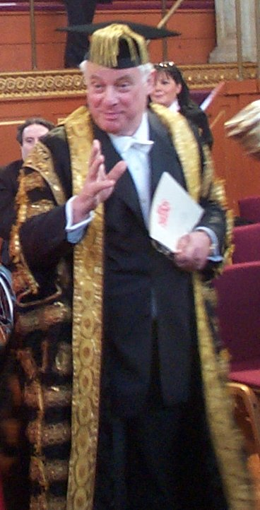 Chris Patten. Copyright © 2005-03-17 Kaihsu Tai.